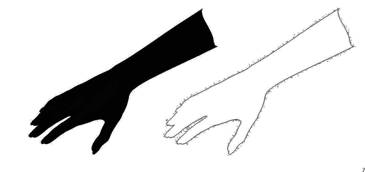 Appearance based input for certain gesture recognition algorithms